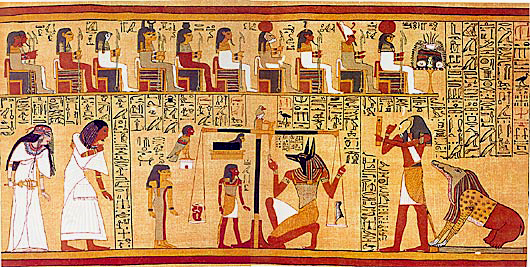 Book of the Dead